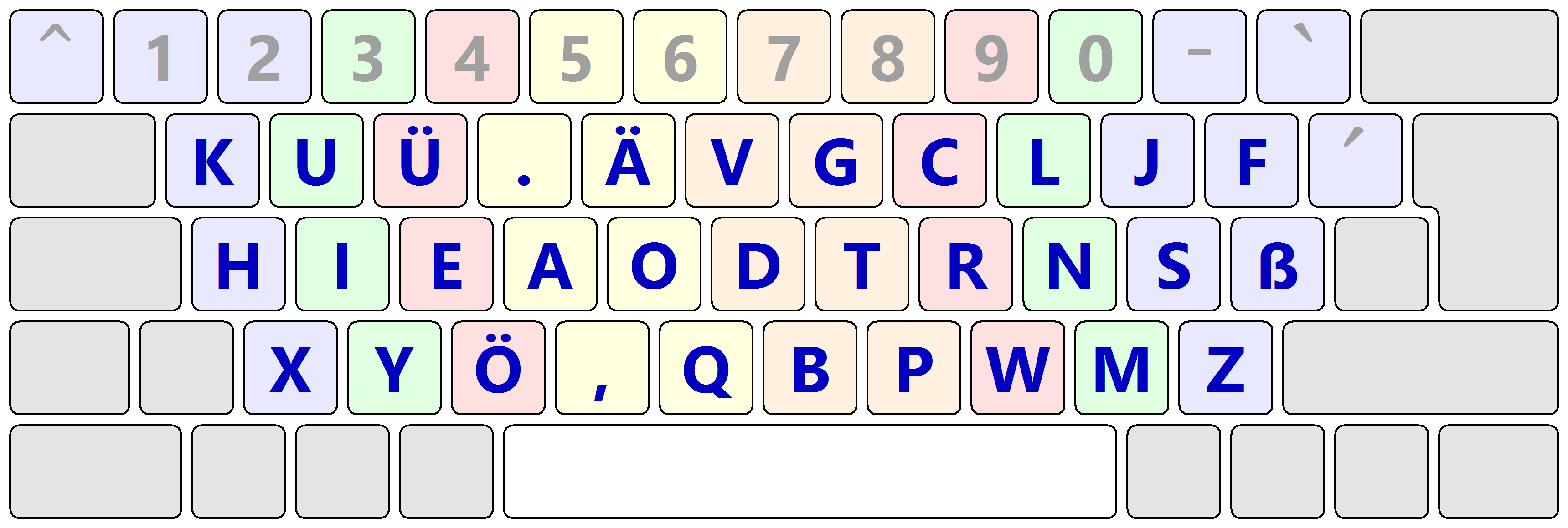 An alternative German keyboard layout developed 2010, based on while changing the Latin letters and ",", ".".